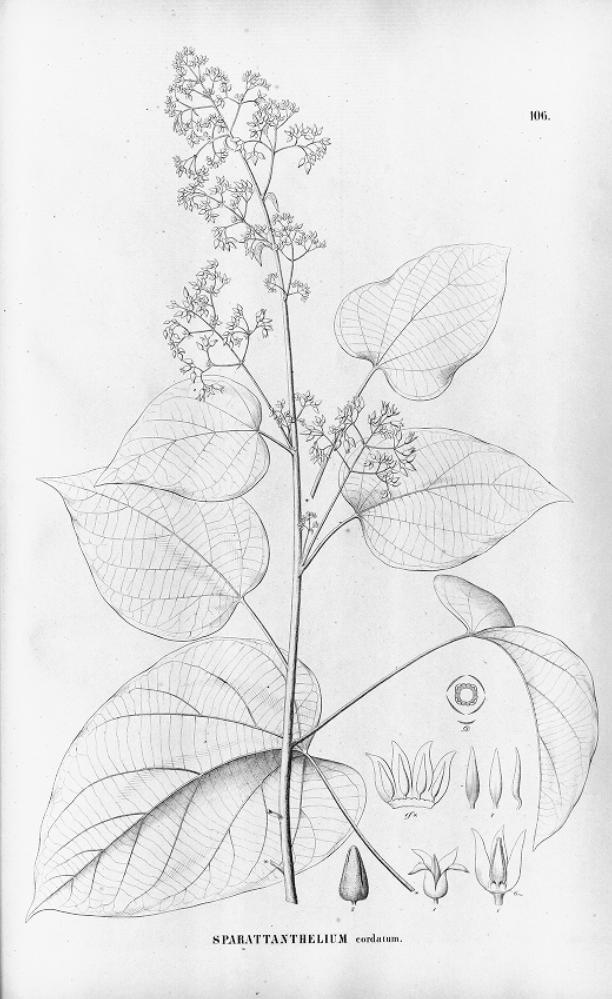 Illustration of Sparattanthelium cordatum